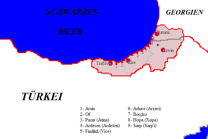 Lazican provinces in Turkey and Georgia